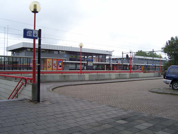 Trainstation Bergen op Zoom